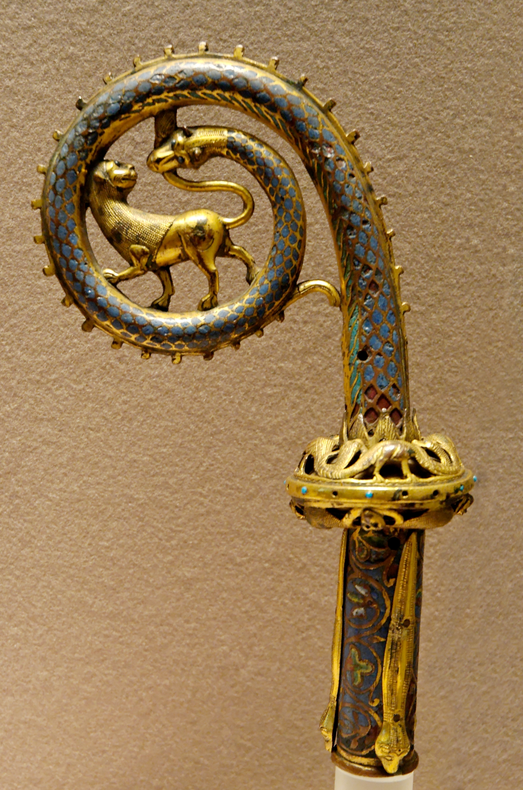 Crozier with snake and lion. Champlevé enamel over gilt copper, ca. 1200, Limoges (Limousin, France).